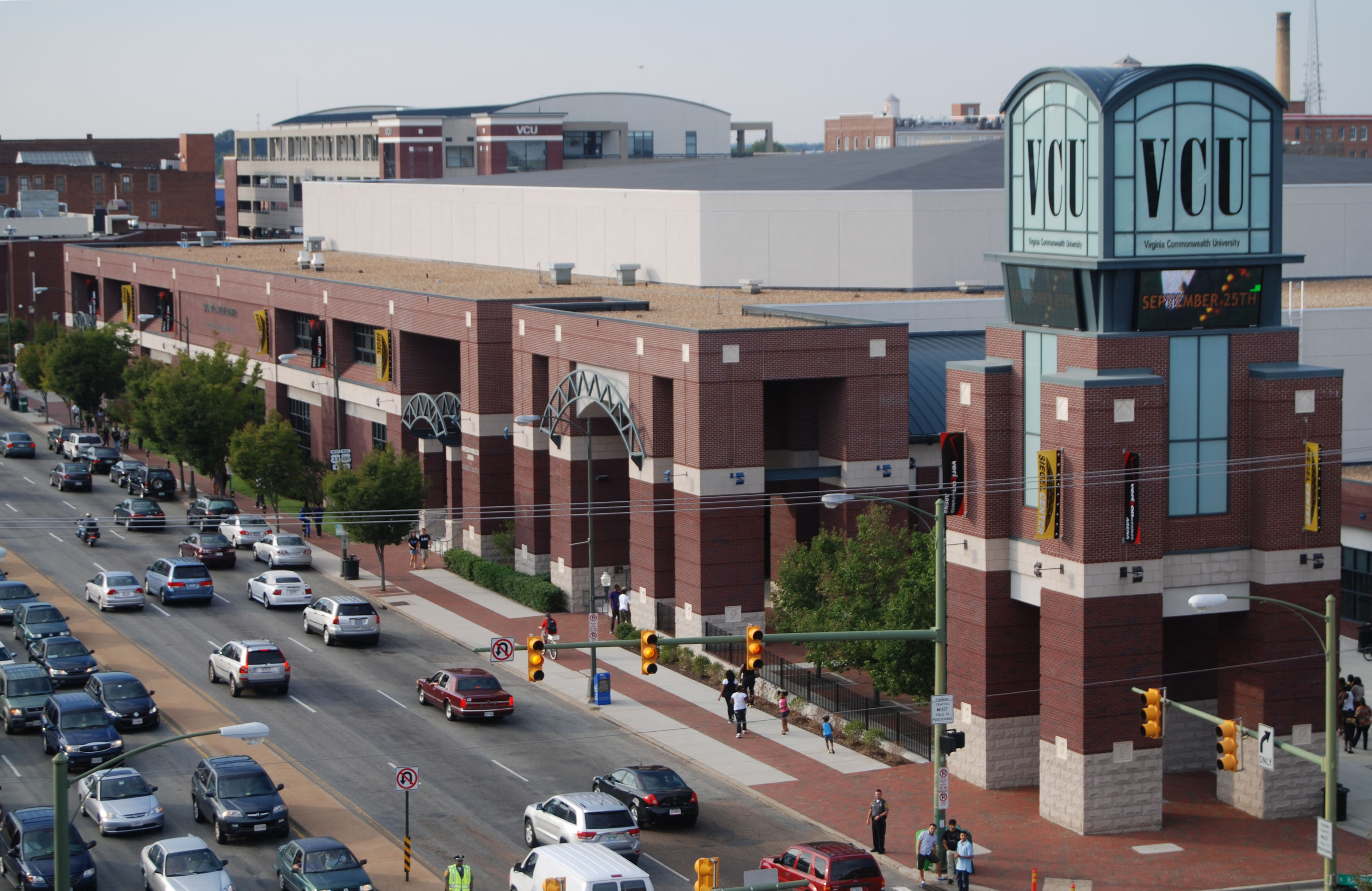 VCU Stuart C. Siegel Center by Jeff Auth